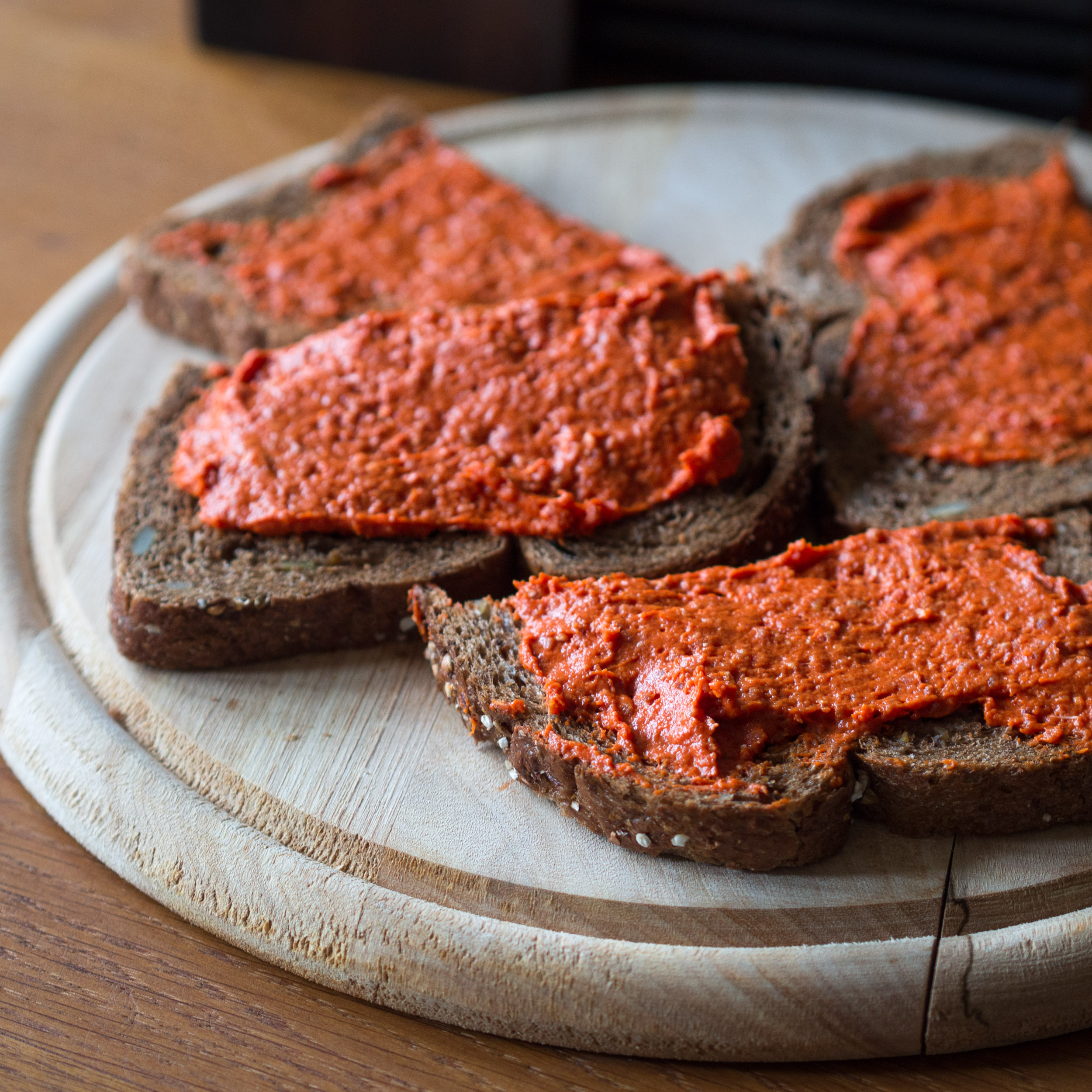 Filet americain is the Dutch version of "steak tartare". Recipes vary but it is usually made with finely ground raw beef, onions, paprika powder, pepper, capers, tobasco, and often also mayonnaise. It is commonly eaten on bread or with toasts.